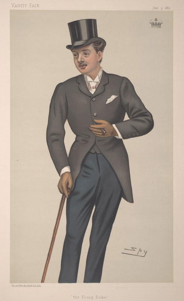 Statesman No.402: Caricature of The Duke of Portland. Caption reads: "the Young Duke"